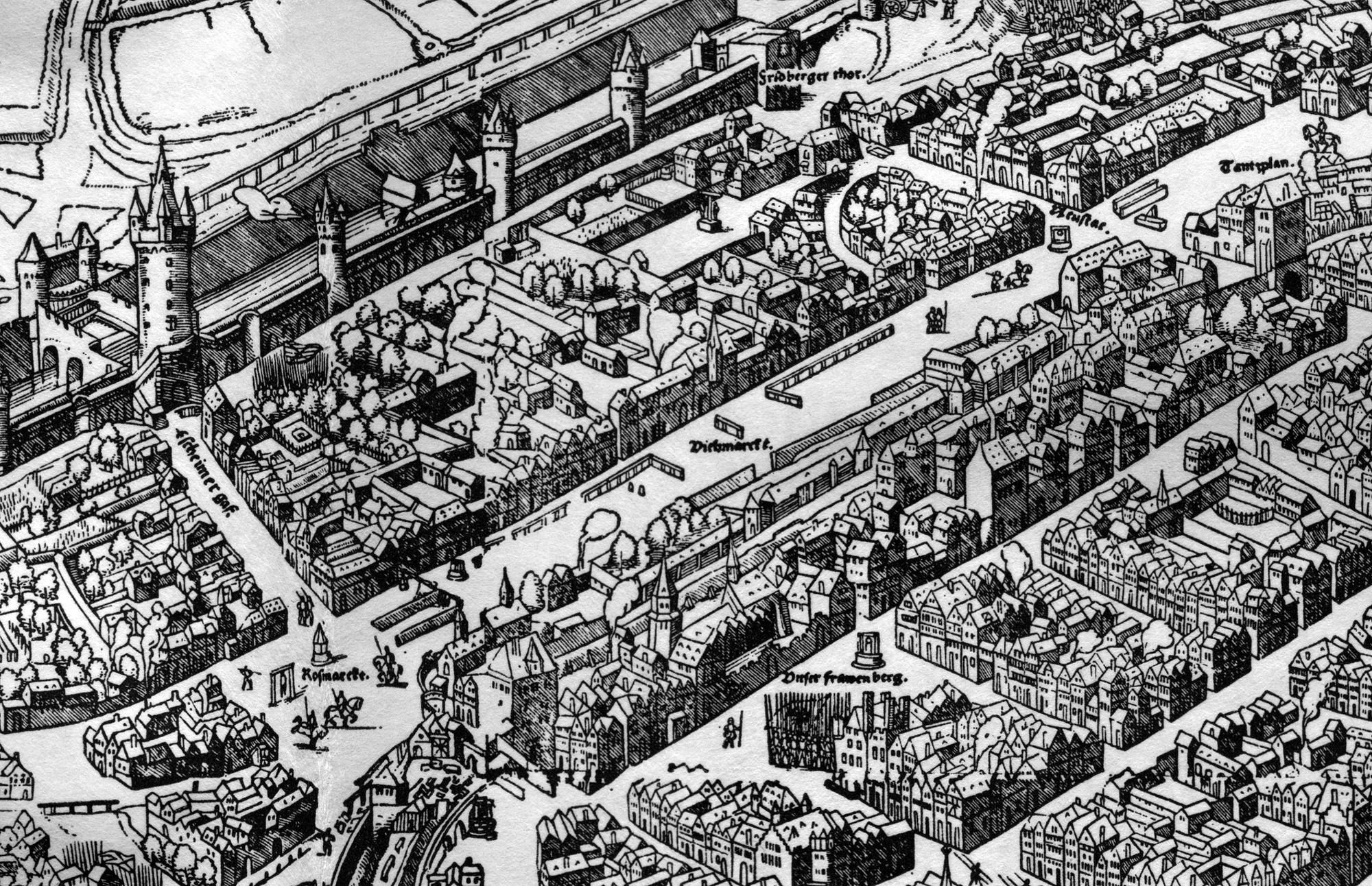 Frankfurt on the Main: Detail from the siege plan of 1552 with Zeil and surroundings